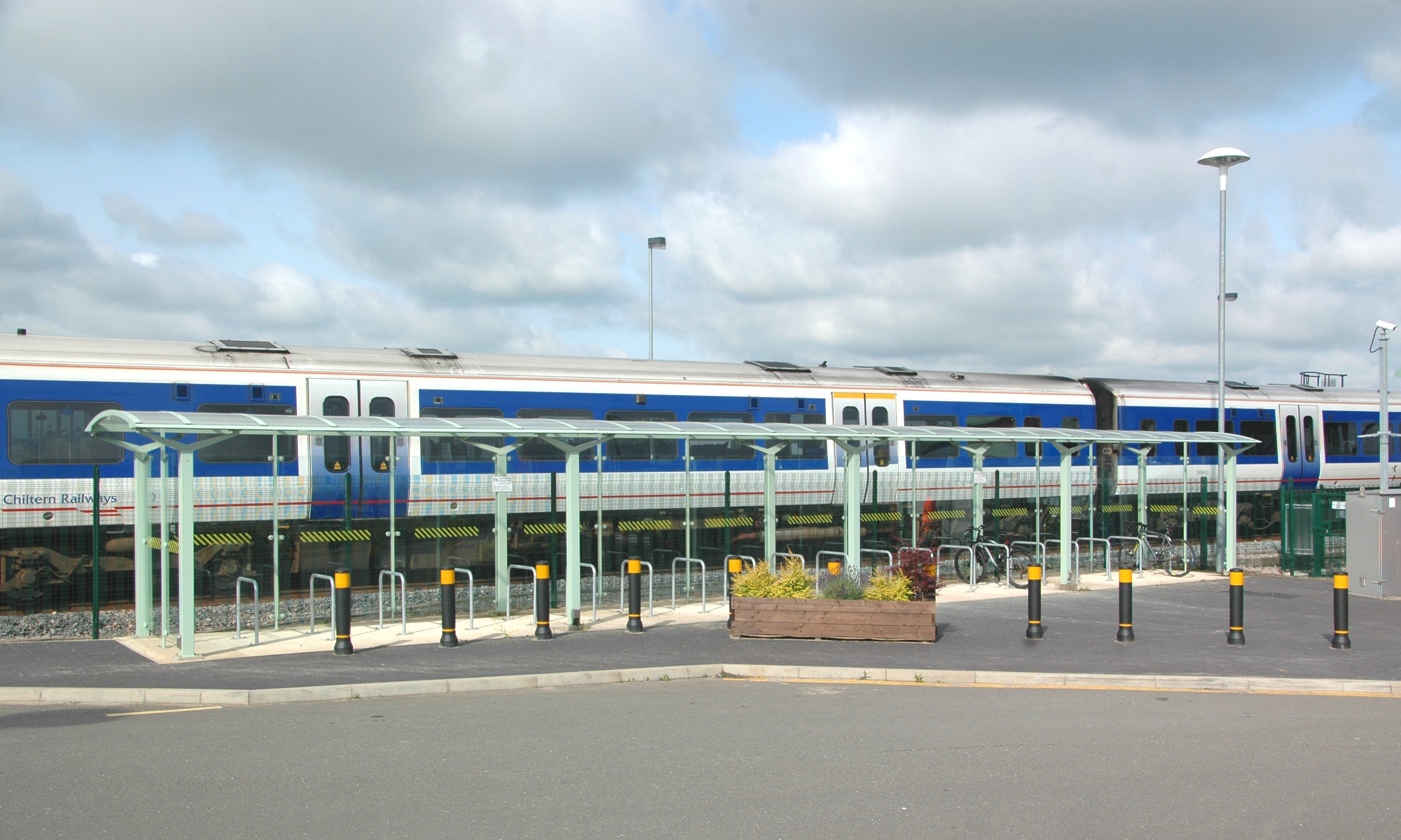 Aylesbury Vale Parkway railway station, Buckinghamshire, England: pedal cycle park